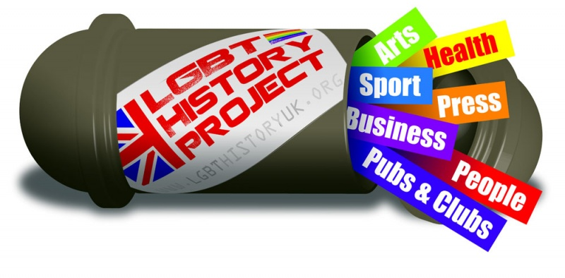 "Time Capsule" image symbolising the LGBT UK History Project as preserving a snapshot of UK LGBT History for future generations